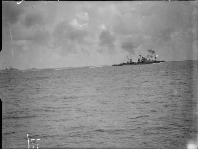 British light cruiser HMS NAIAD fires on enemy aircraft with her fore turrets during operations in the Mediterranean